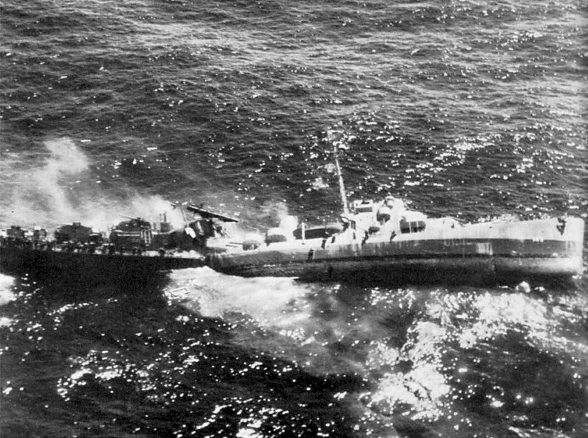 USS Fiske (DE-143) on 2 August 1944: Broken in two and sinking in the Atlantic Ocean on 2 August 1944, after she was torpedoed by the German submarine U-804. Note men abandoning ship by walking down the side of her capsizing bow section. (Official U.S. Navy Photograph, now in the collections of the National Archives - Photo #: 80-G-270257.)